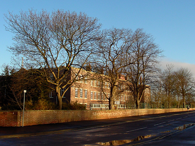 Territorial Army, Horfield. Built in the 1950's, this is the headquarters of the 39 (Skinners) Signal Regiment. Looking north.